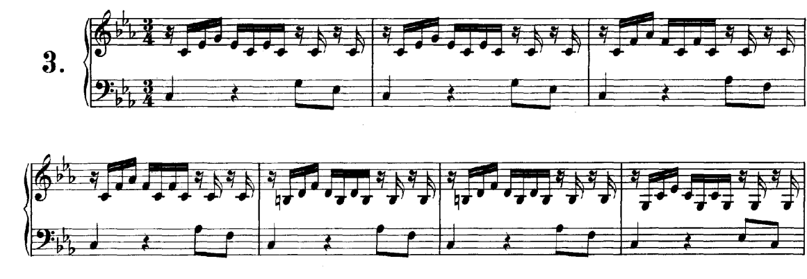 Score Excerpt